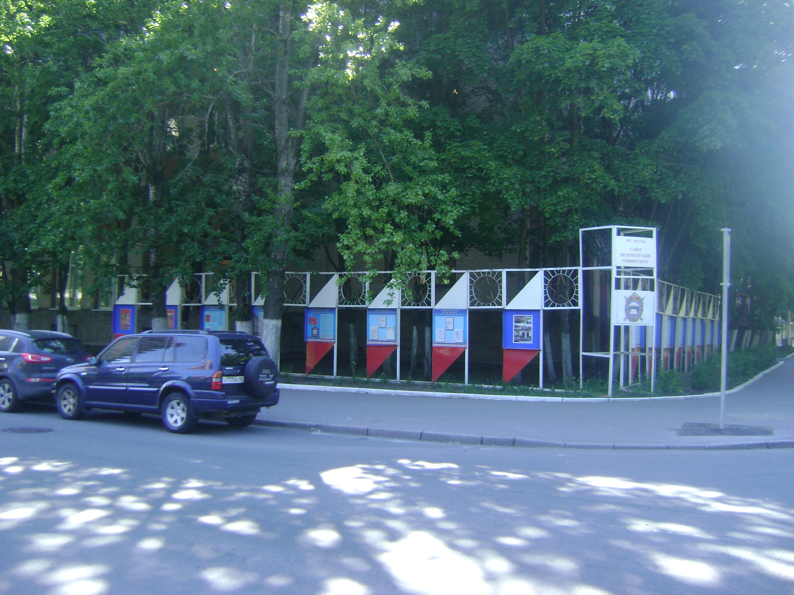 St. Petersburg University of the Russian Interior Ministry